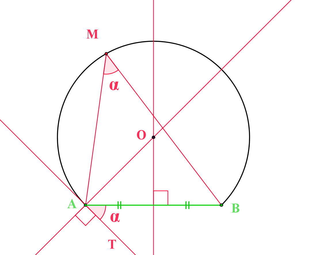 Geometric construction of a circle inscribing an angle